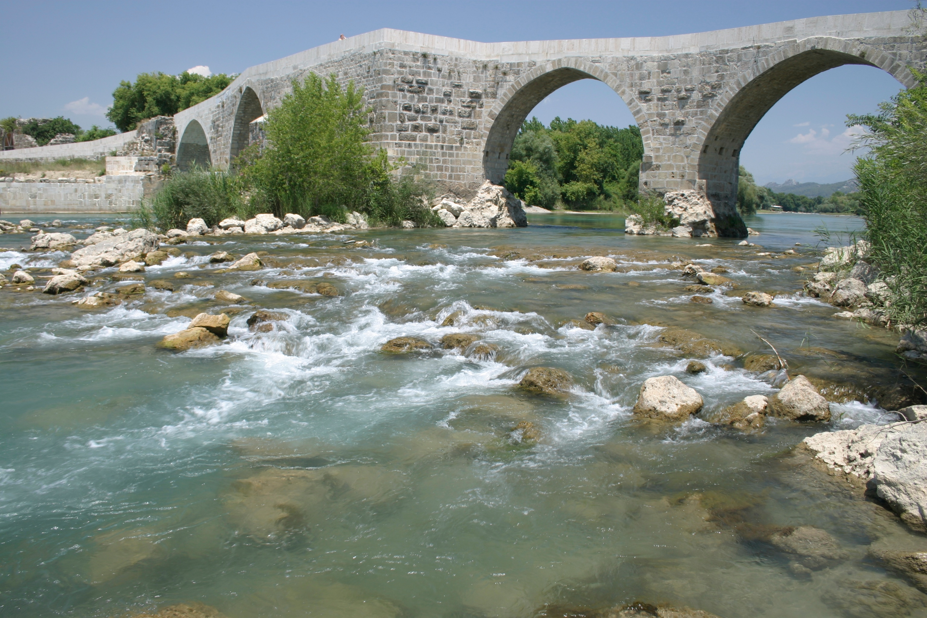 The Eurymedon Bridge (Köprüpazar Köprüsü) near Aspendos, Pamphylia, Turkey